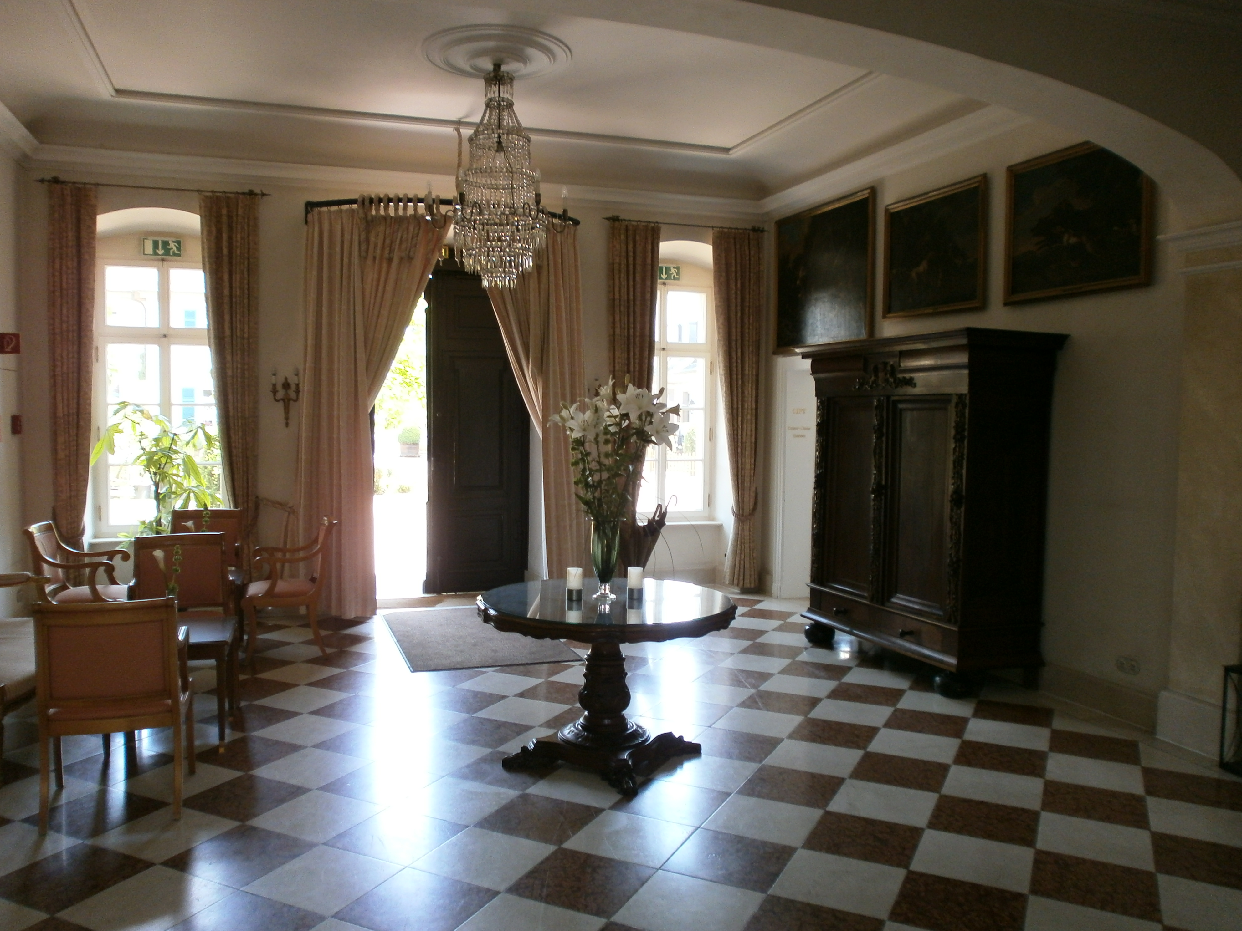 Inside Schloß Reinhartshausen